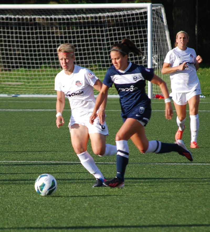 Lauren Barnes defends against Lori Lindsey of the Washington Spirit on May 16, 2013 at Starfire Stadium in Tukwila, Washington.